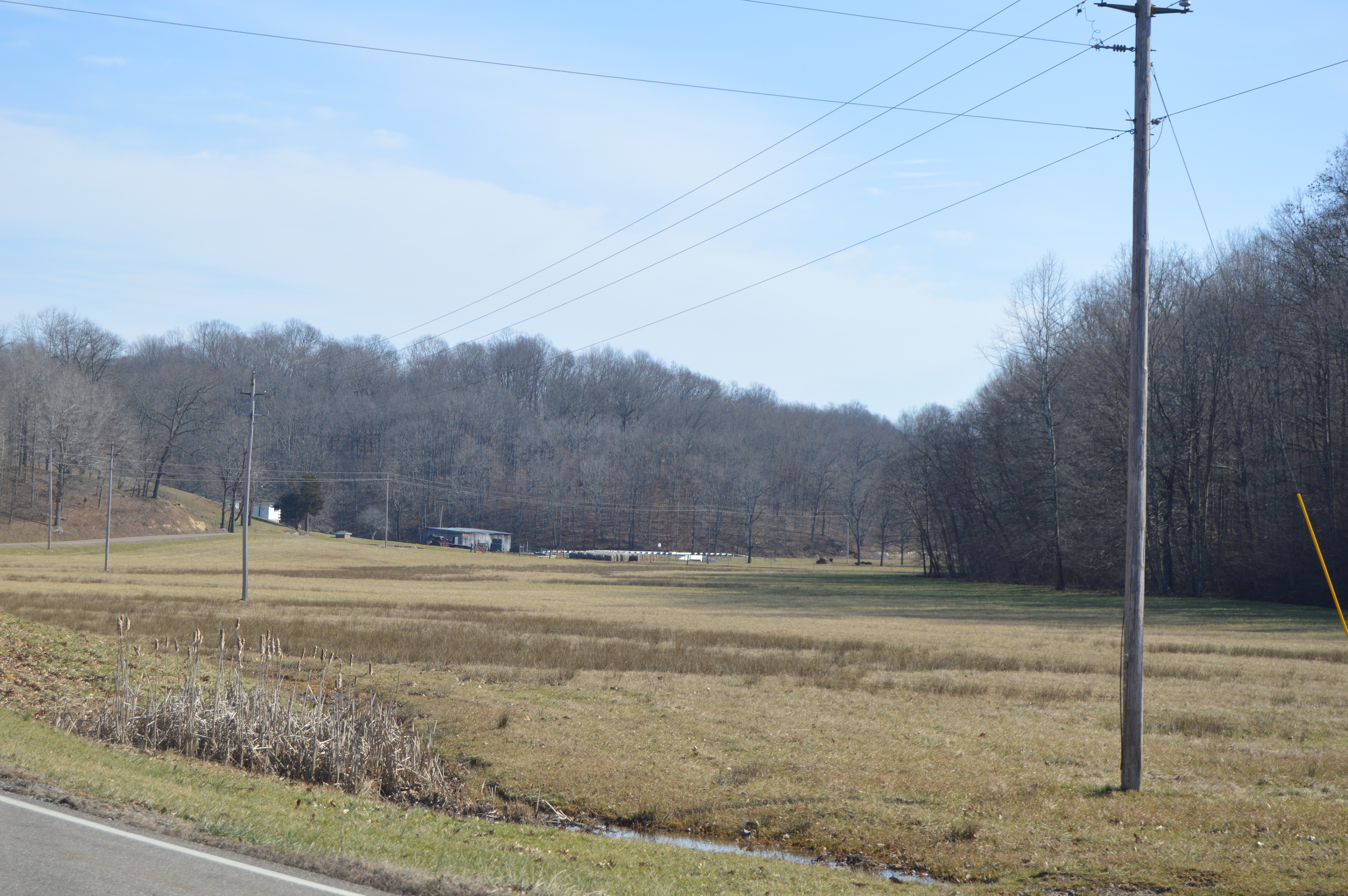 Stream bottoms along Sugar Run on the southern side of State Route 325 northeast of Vinton in far southern Salem Township, Meigs County, Ohio, United States.